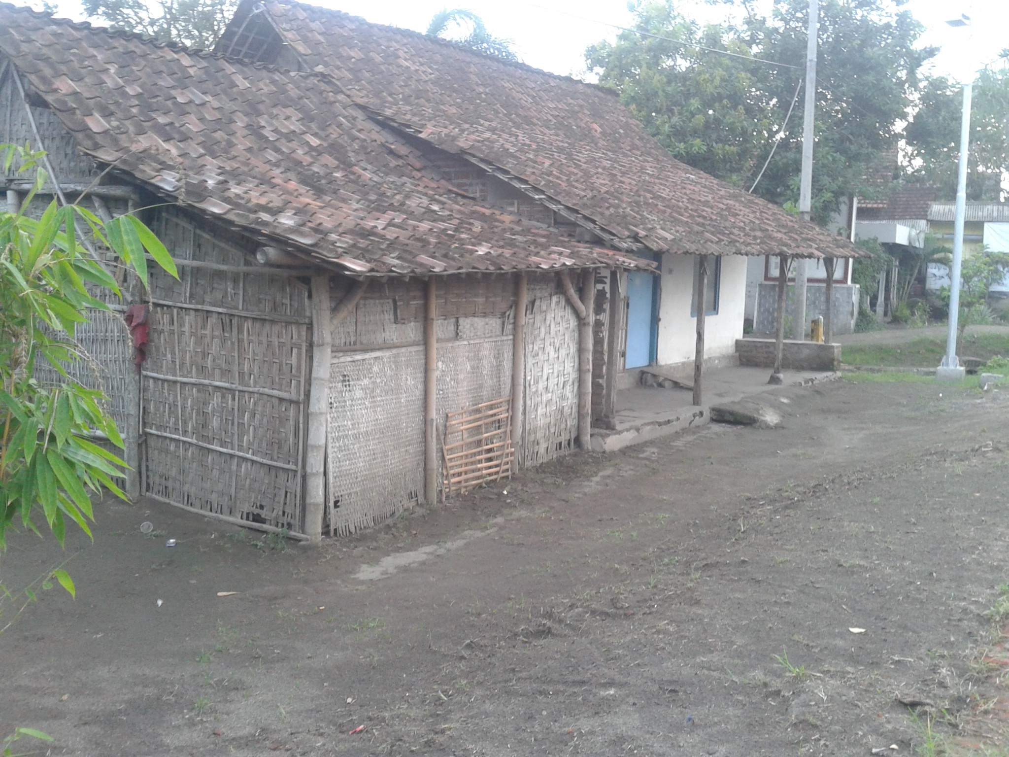 The former Gayam train stop in the Kediri Regency, Indonesia.